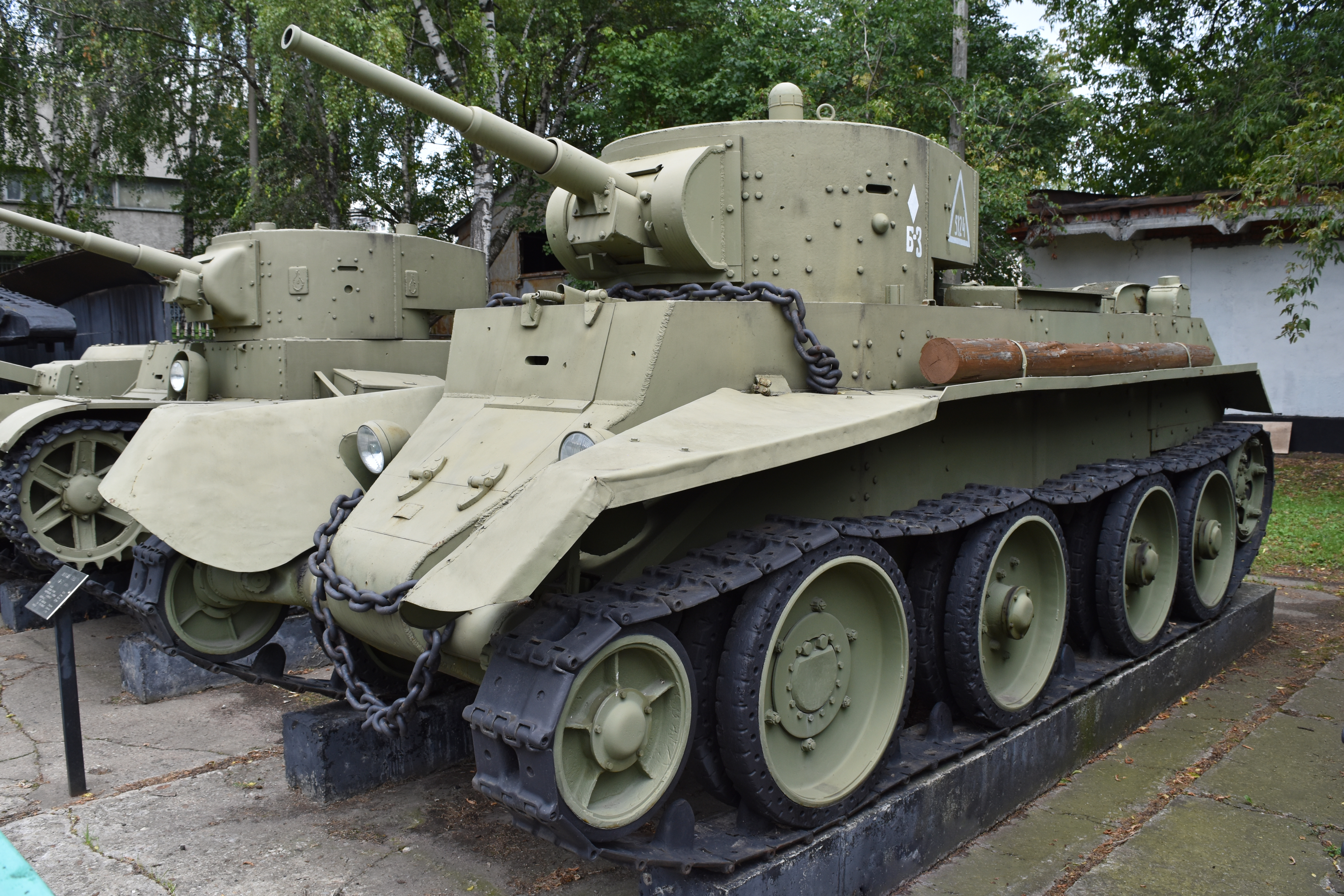 Soviet WW2 era Light Cavalry Tank Manufacturer:- Kharkov Komintern Locomotive Plant (KhPZ) Built:- 1935 to 1940 Total Production:- 4,965 Main Armament:- 45mm L/46 gun This was the first variant of the BT-7 and was a BT-5 chassis fitted with a T-26 turret. The BT-7 was the main Soviet battle tank during the summer of 1941 and remained in frontline use until the end of the war. On display at the Central Armed Forces Museum, Moscow, Russia. 26th August 2017